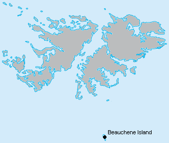 aus CIA-Worldfactbook weiterverarbeitet